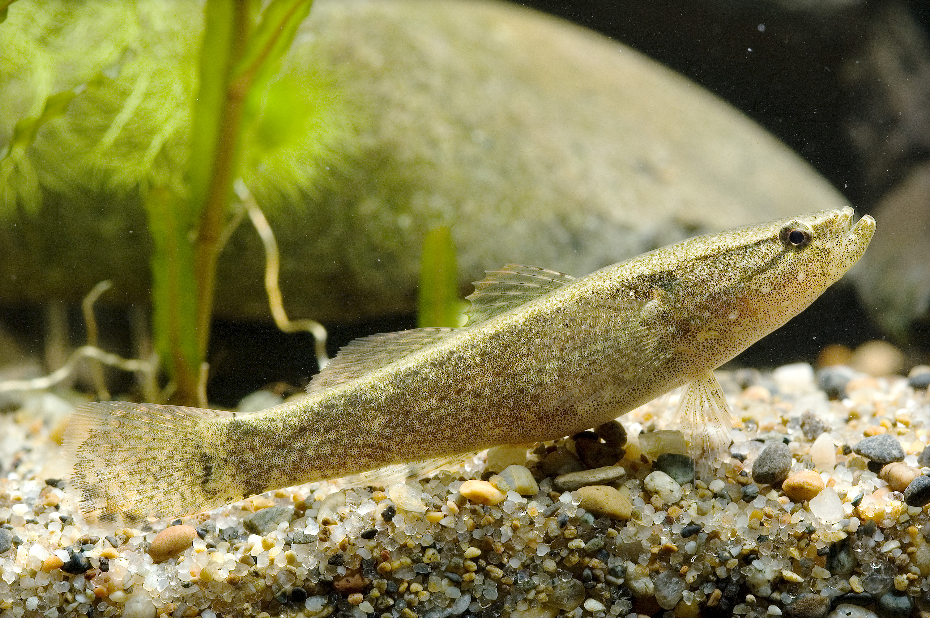 Kawaanago, Eleotrinae oxycephala (no it is Eleotris oxycephala, Eleotrinae is the name of the subfamily), from Yaizu, Shizuoka, Japan.